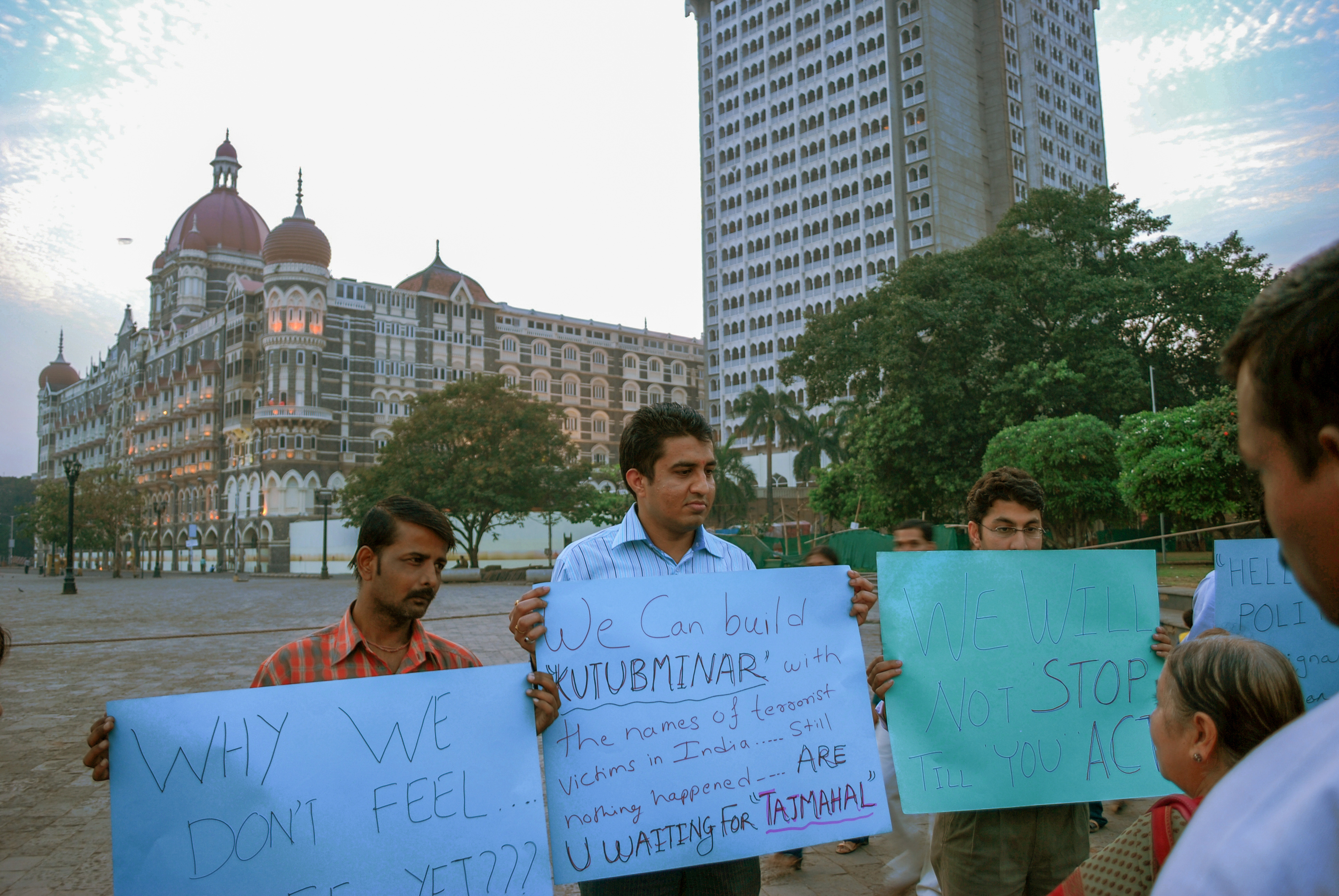 Few citizens outside the Taj Mahal Palace demanded the government to act.